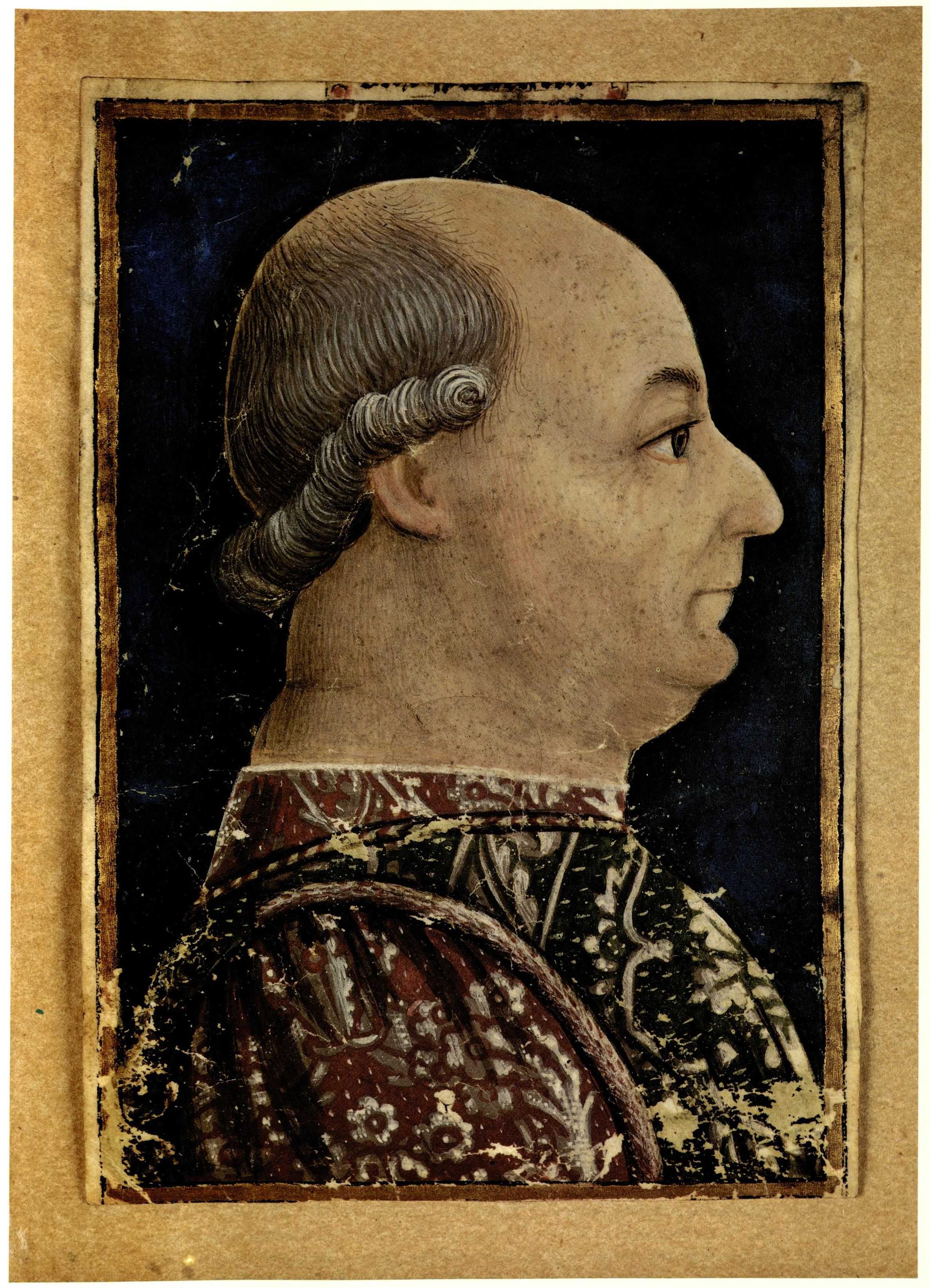 A portrait of Francesco Sforza, duke of Milan. Miniature in the manuscript Milan, Biblioteca Trivulziana, 786, fol. 1 (inserted folio).